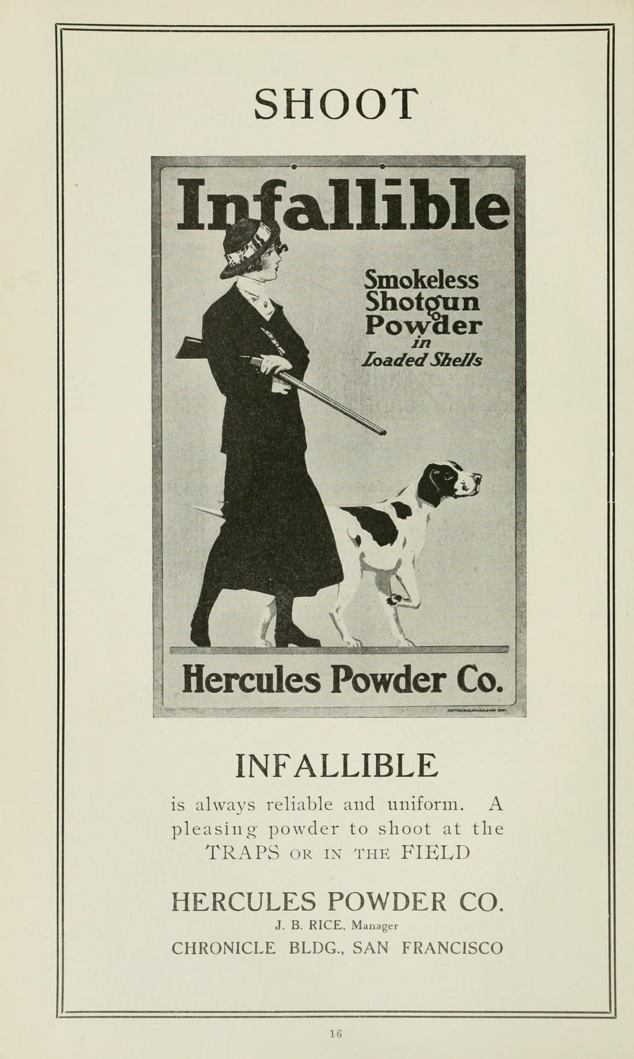 Hercules Powder Company infallible smokeless shotgun powder, 1916 advertisement